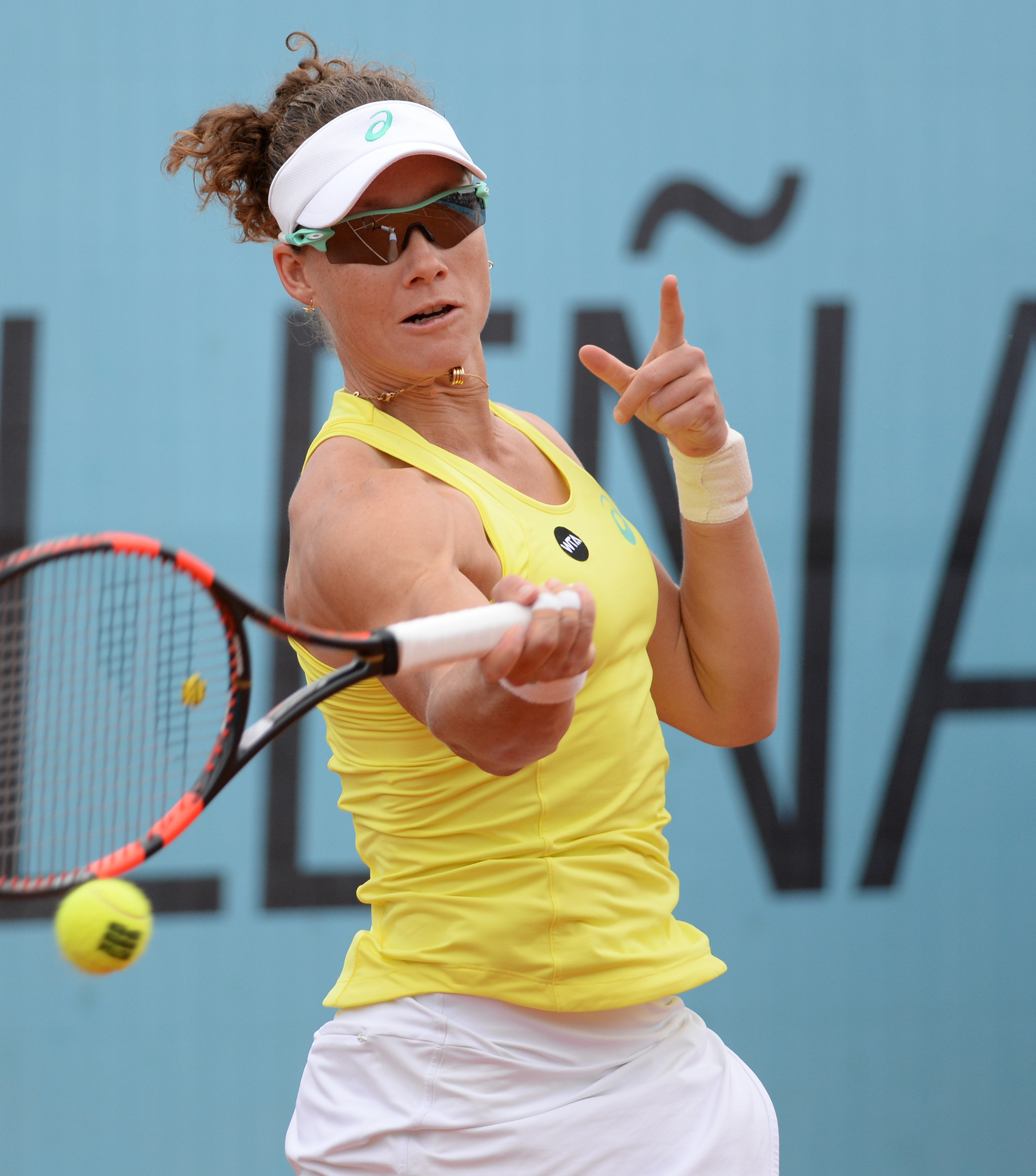 Samantha Stosur